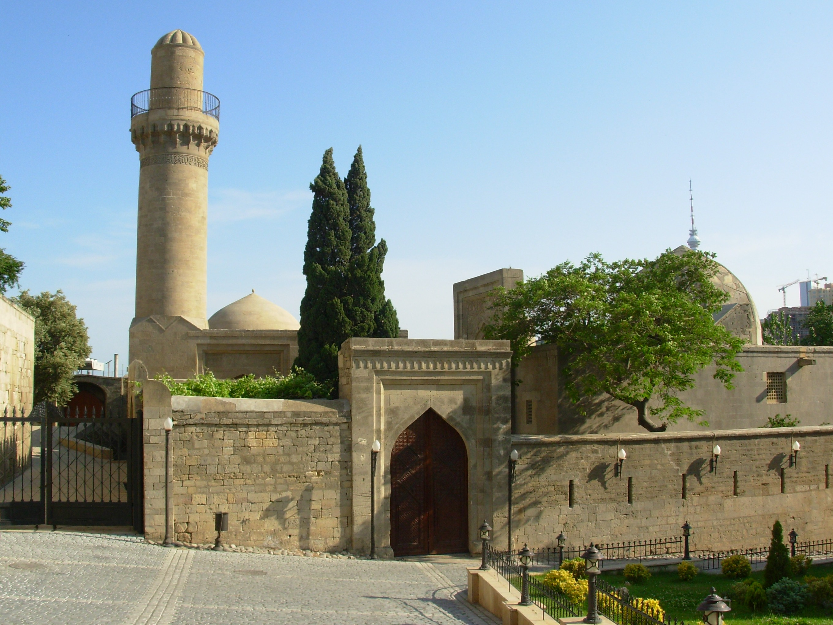 Shirvanshah Palace, Baku, Azerbaijan